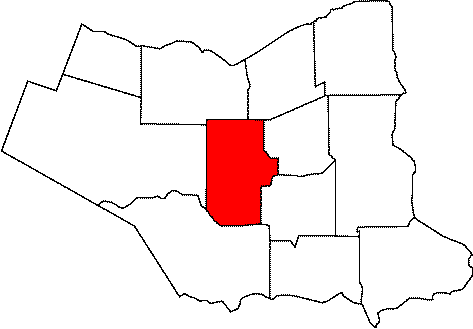 Map of Pelham, Ontario